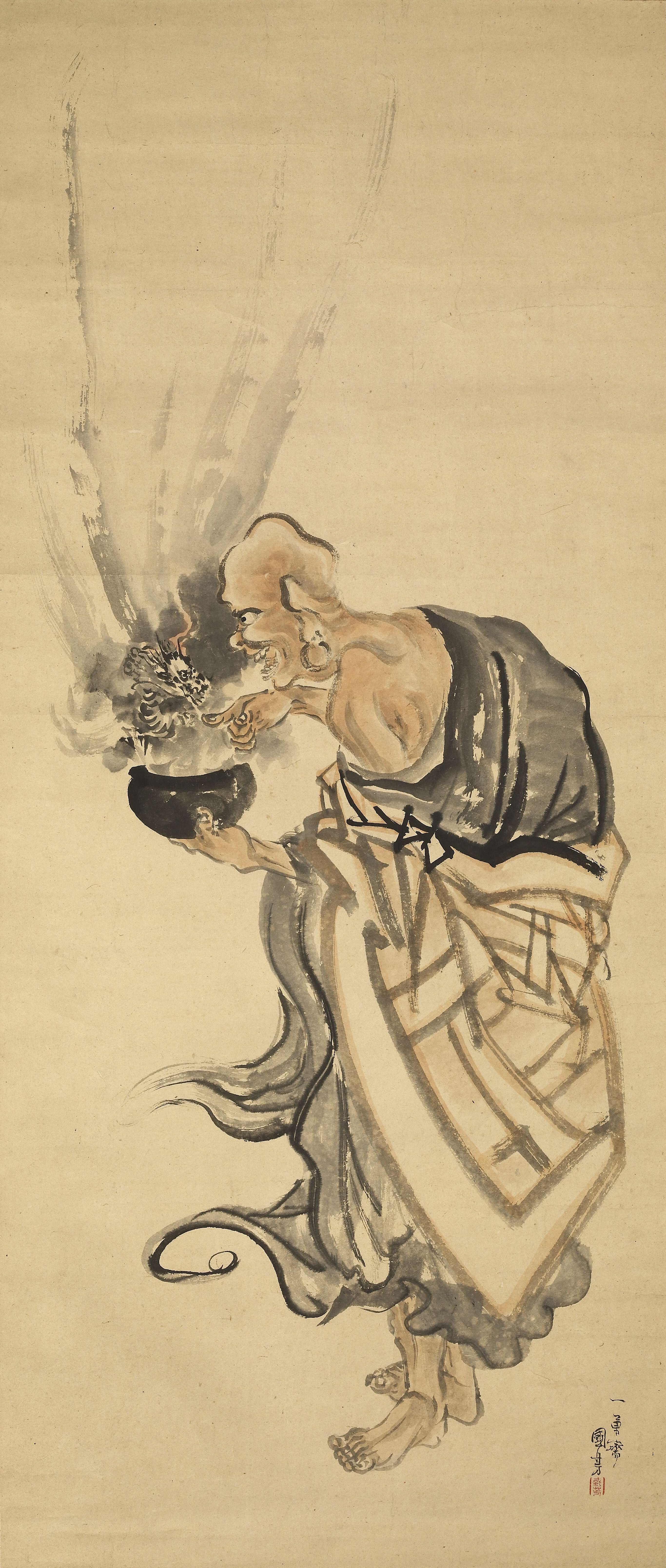 Painting, hanging scroll. Arhat Handaka Sonja: wearing monastic robe with shaven head and large earrings; poking with finger little dragon emanating from begging bowl in middle of rain cloud. Ink and slight colour on paper. Signed and sealed.